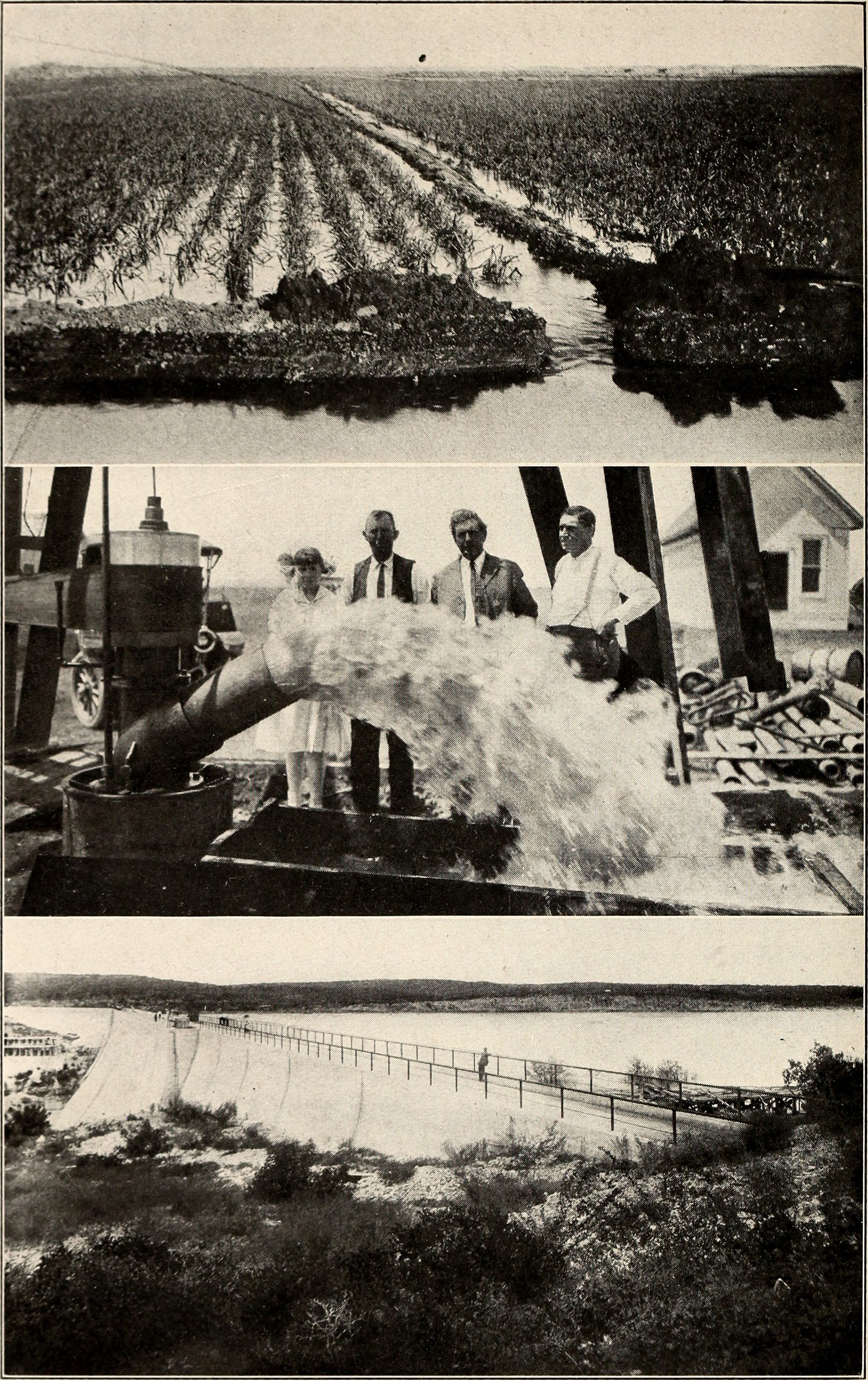 Title: Book of Texas Year: 1916 (1910s) Authors: Benedict, Harry Yandell, 1869-1937 Lomax, John A. (John Avery), 1867-1948 Subjects: Texas Texas -- Economic conditions Publisher: Garden City, N.Y. : Doubleday, Page Text Appearing Before Image: Photograph by Wheelui Reinforced Concrete Flume on Main Canal Near Mercedes Text Appearing After Image: Photograph by Wheelus, San Benito Irrigating Onions at Harlingen One op the Shallow Artesian Wells at Lubbock Medina Irrigation Co. DamEight-million-dollar system built by Pearson of the Pearson Syndicate TURNING THE WATERS 201 sions. In 1730, to cite a conspicuous and still-existingexample, the San Pedro ditch, now surrounded by San An-tonio houses, was dug. Numerous other acequias weredug at the other missions, but, of course, judged by modernstandards, no very great acreage was watered. The early American settlers in Texas, coming by way ofthe well-watered East, did not practise irrigation, and itwas not till 1869 at Del Rio, after the population had spreadthrough the eastern half of the state, that what may becalled modern irrigation began in Texas. Since 1870 therehas been a gradual development, accelerated by two rapidexpansions, one in rice irrigation and the other in the lowerRio Grande Valley. The abundance, nearness, and cheap-ness of fertile and fairly well-watered land and